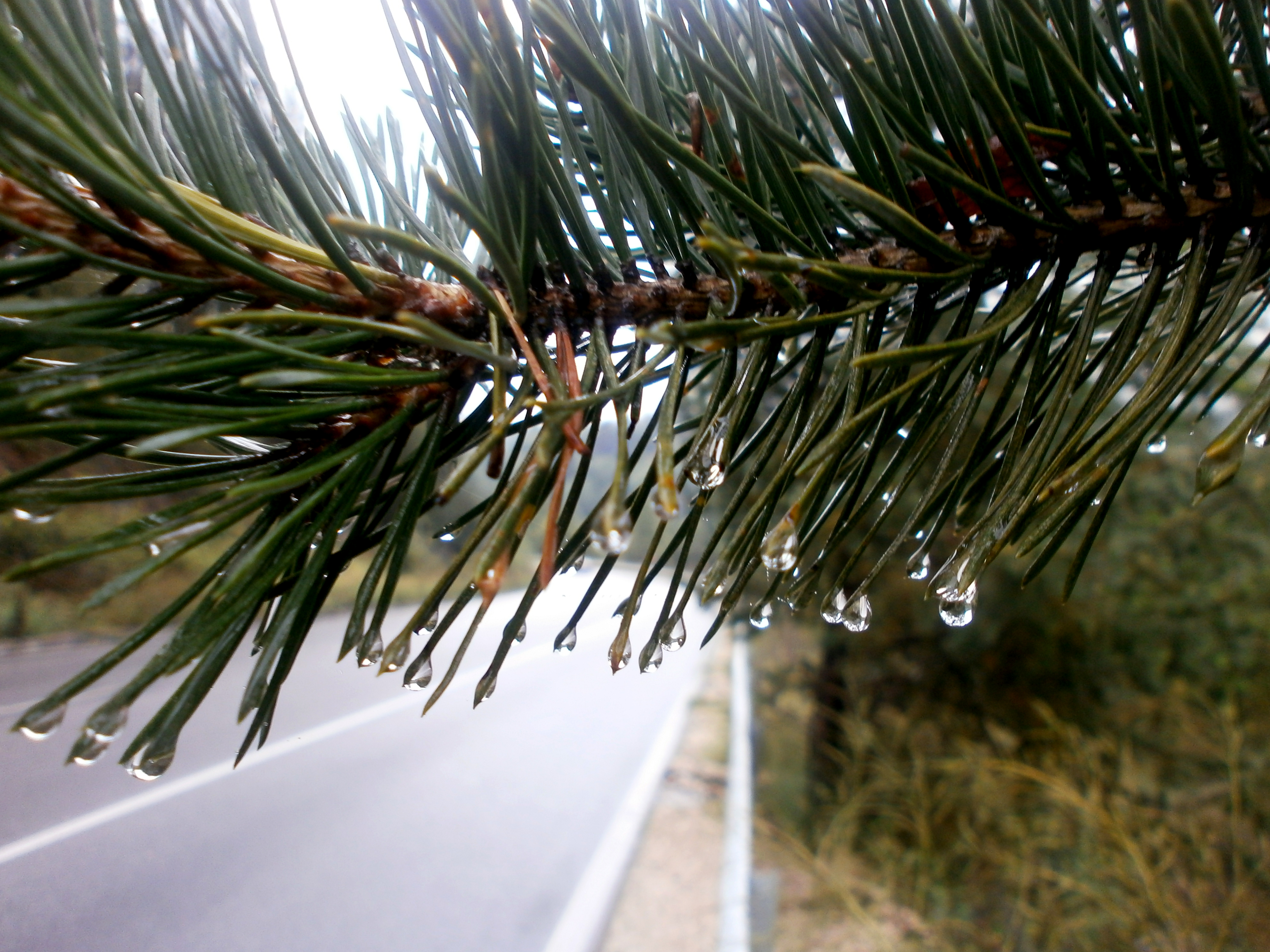 Rain drops